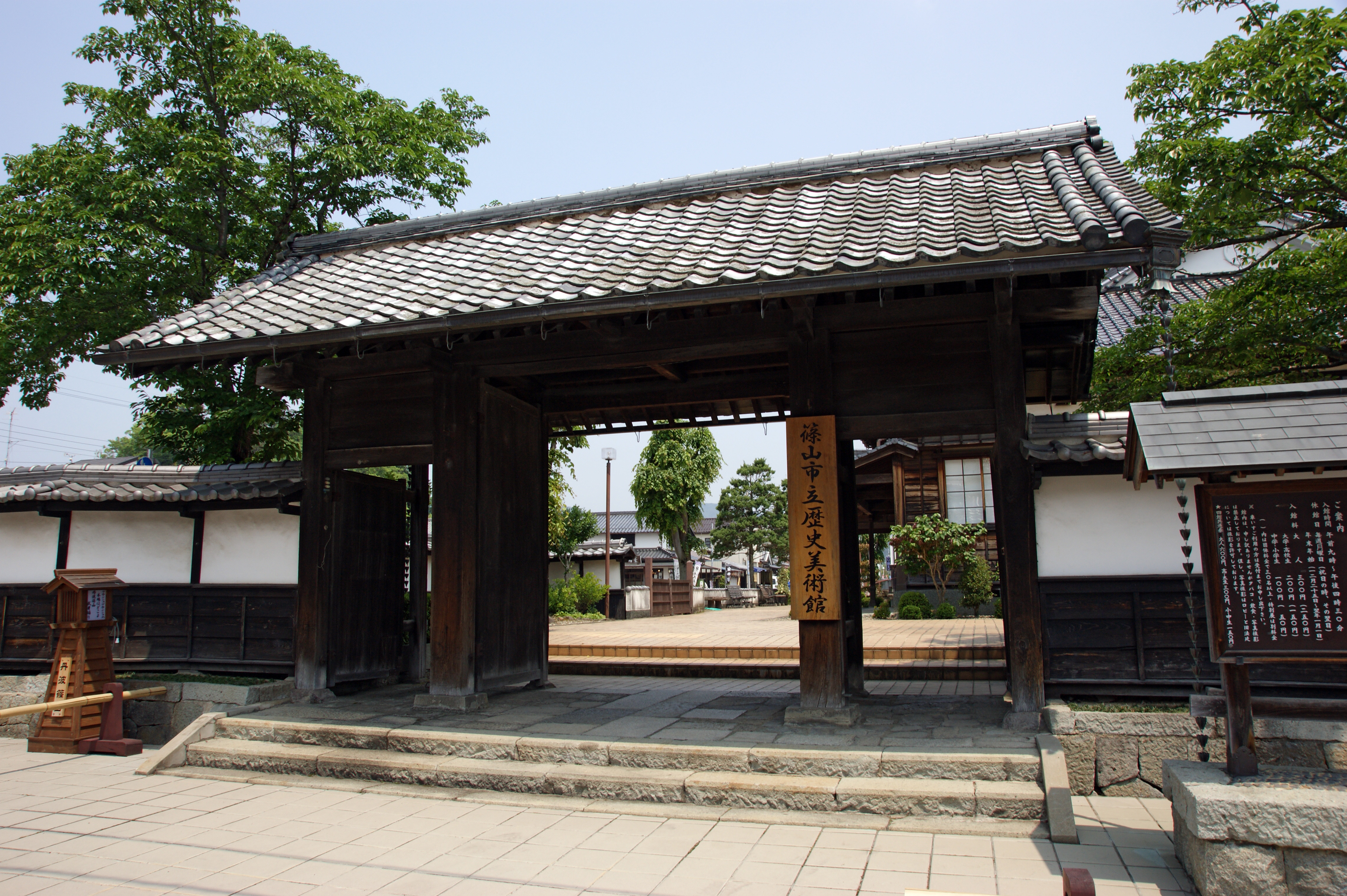 Sasayama Municipal Museum of History in Sasayama, Hyogo prefecture, Japan